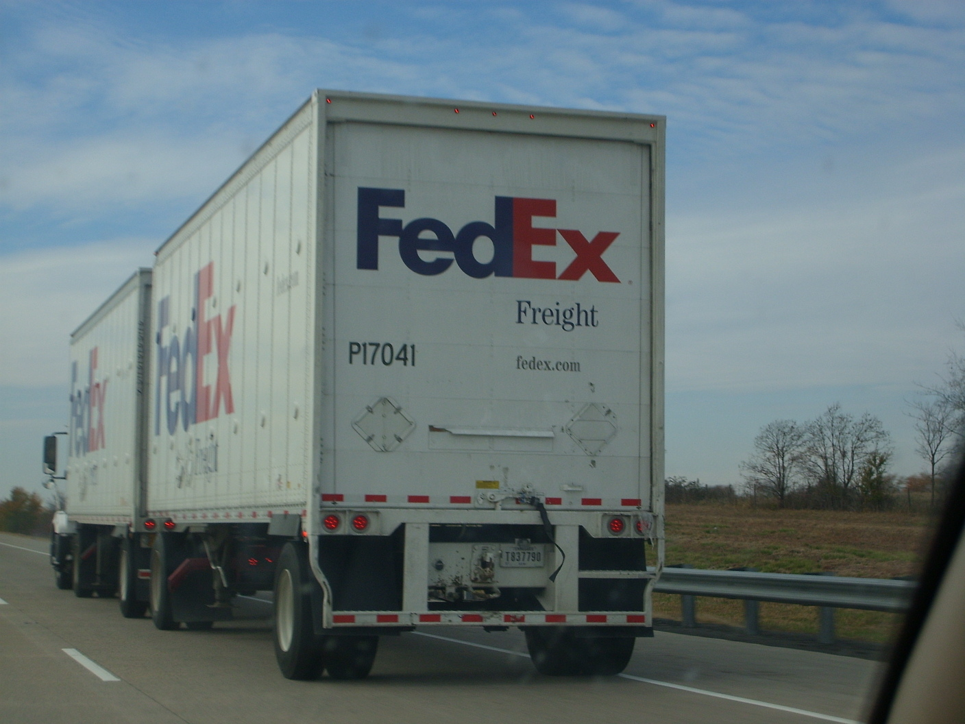 Federal Experss long-distance ground delivery truck